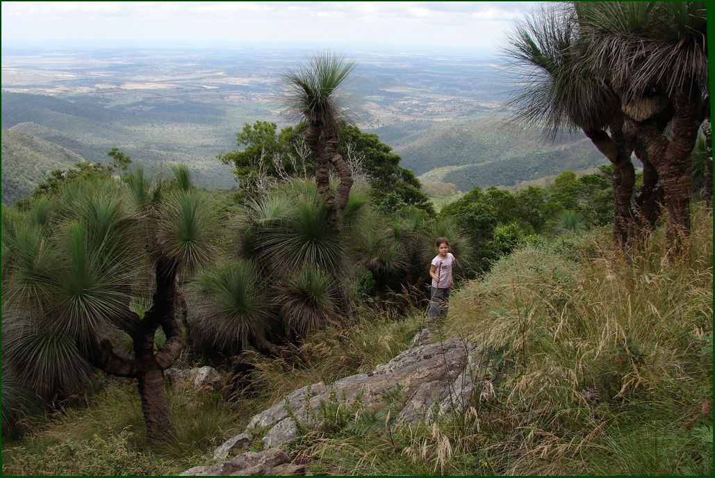 Lookout from the hightest point of the national park - Mt. Kiangarow (1135m). The easy walking track takes you here from Burton's well camping ground.